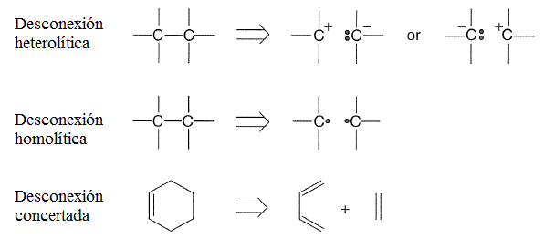 Disconnections image for support for an article